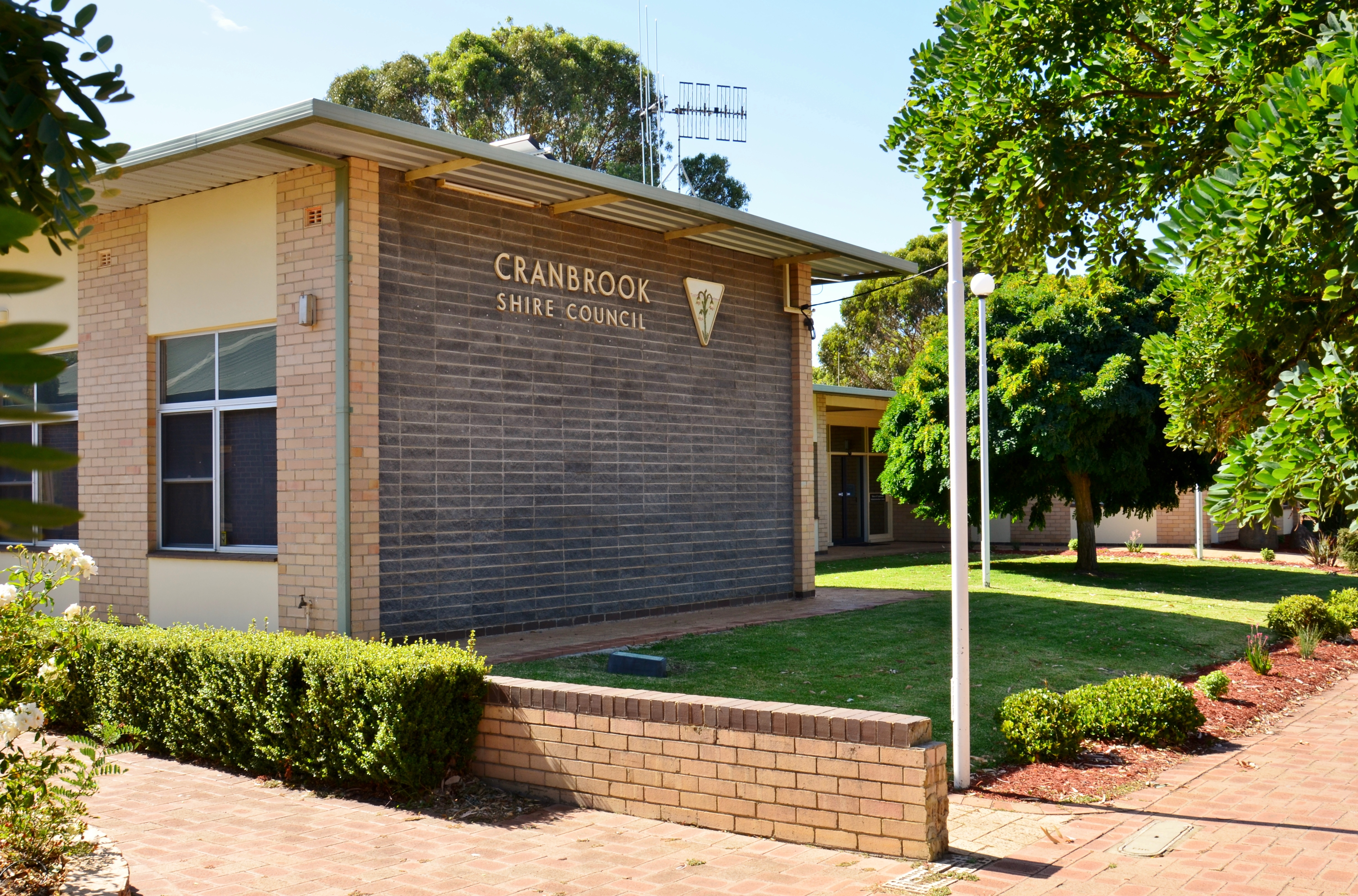 View of the shire offices of the Shire of Cranbrook, Gathorne Street, Cranbrook, Western Australia